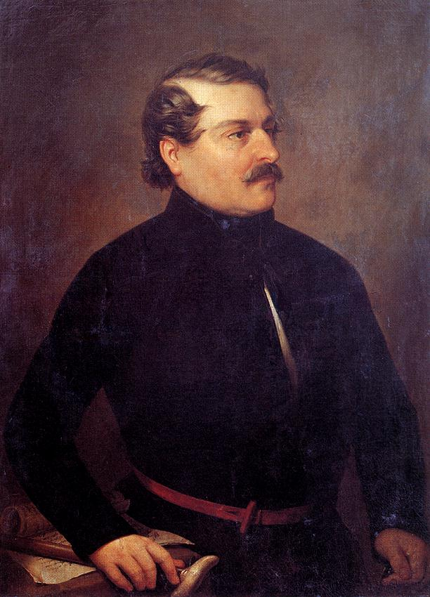 Count Miklós Wesselényi the Younger